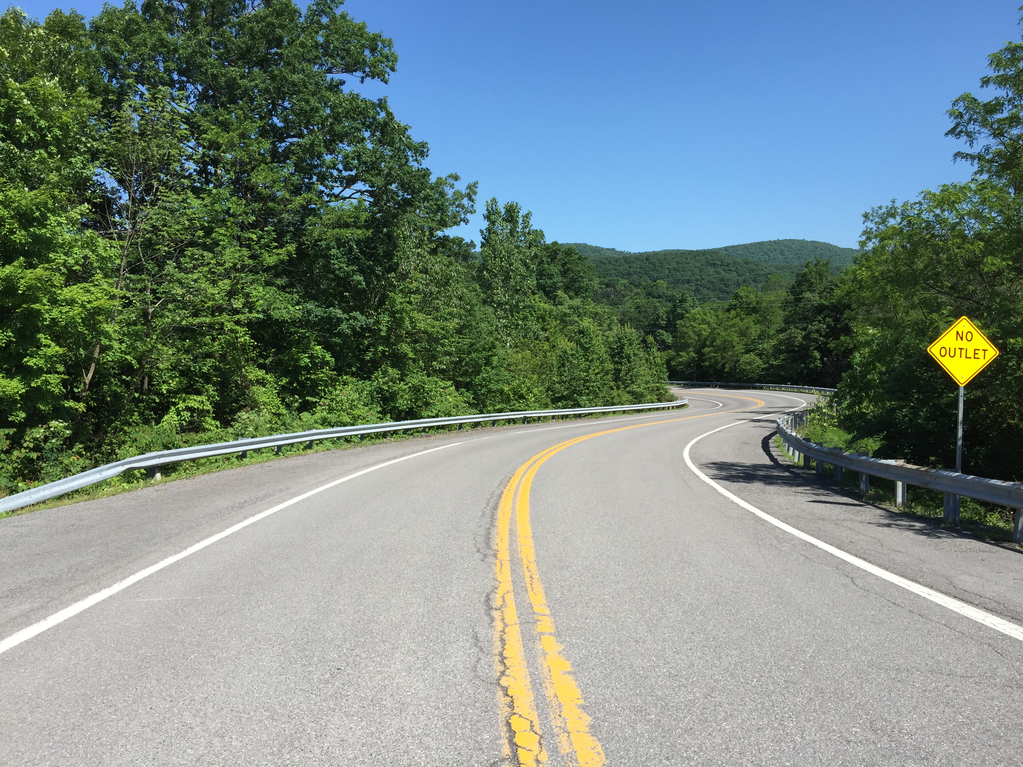 View west along Maryland State Route 949 (Braddock Road) at Maryland State Route 658 (Vocke Road) in Winchester, Allegany County, Maryland